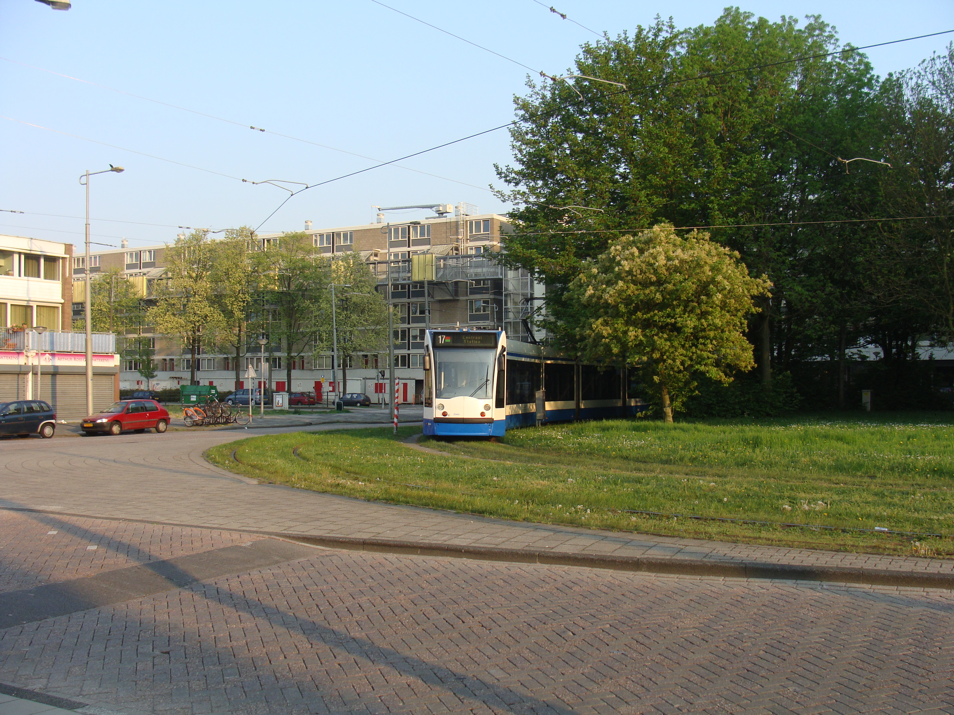 Terminus of the Amsterdam tram line 17 at the Dijkgraafplein, Amsterdam-Osdorp, The Netherlands